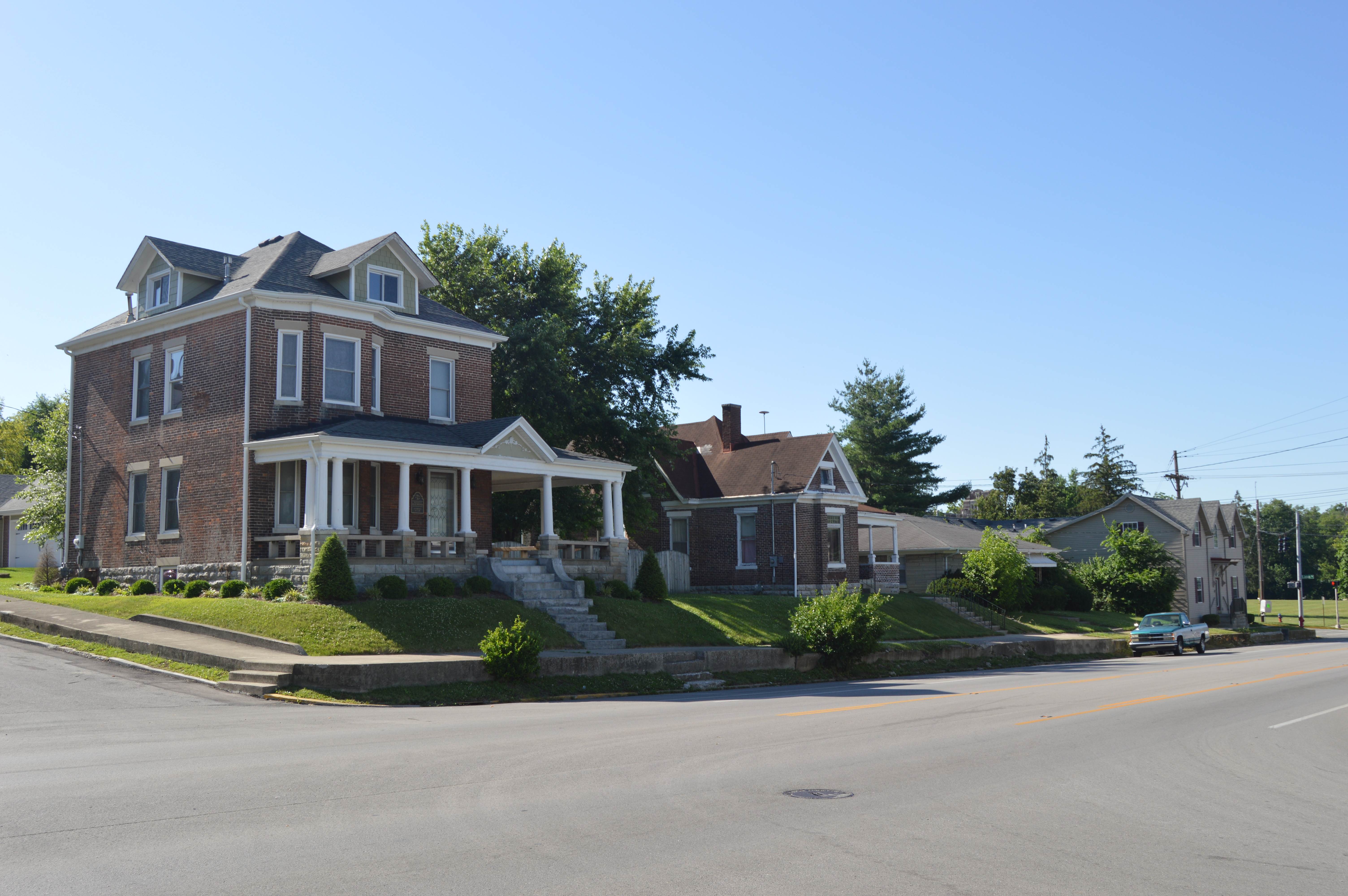 Houses on the eastern side of the 300 block of S. Broadway (U.S. Route 25) in Georgetown, Kentucky, United States. This block is part of the South Broadway Neighborhood District, a historic district that is listed on the National Register of Historic Places.